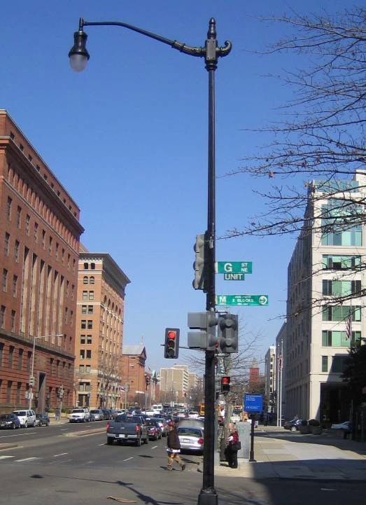 A teardrop pendant street light in Washington, D.C., in the United States.